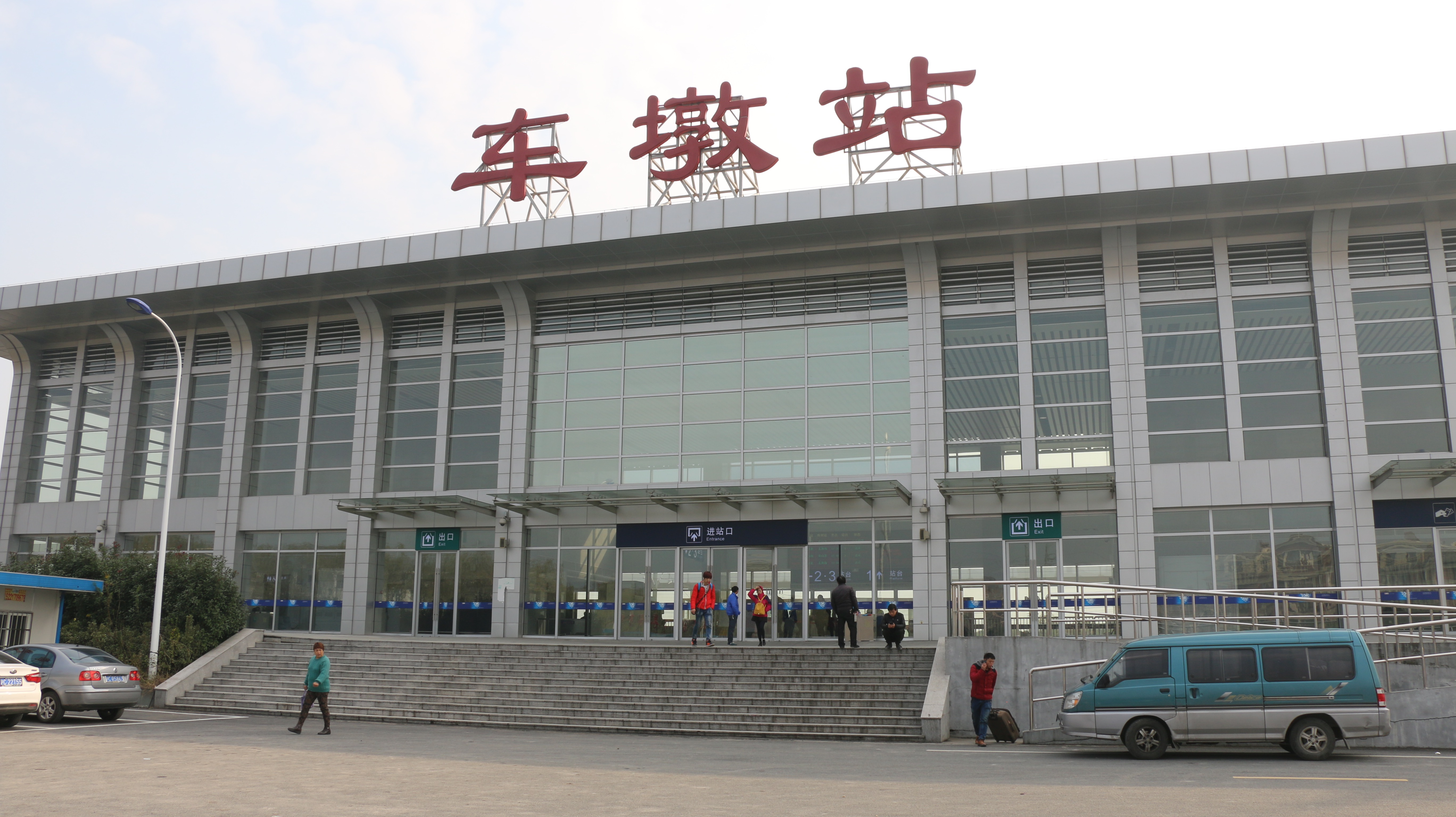 Facades of Chedun Railway Station